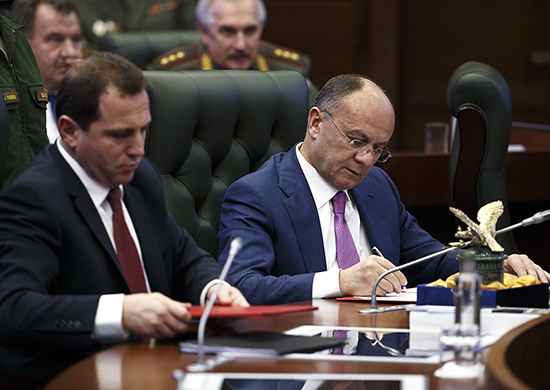 В Москве под председательством главы военного ведомства России генерала армии Сергея Шойгу прошло заседание Совета министров обороны государств – участников СНГ